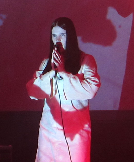 Trish Keenan performing with Broadcast in Spain, 2010